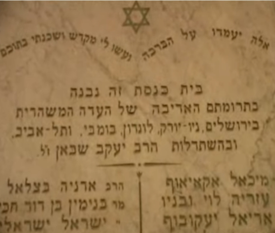 A memorial plaque in the synagogue